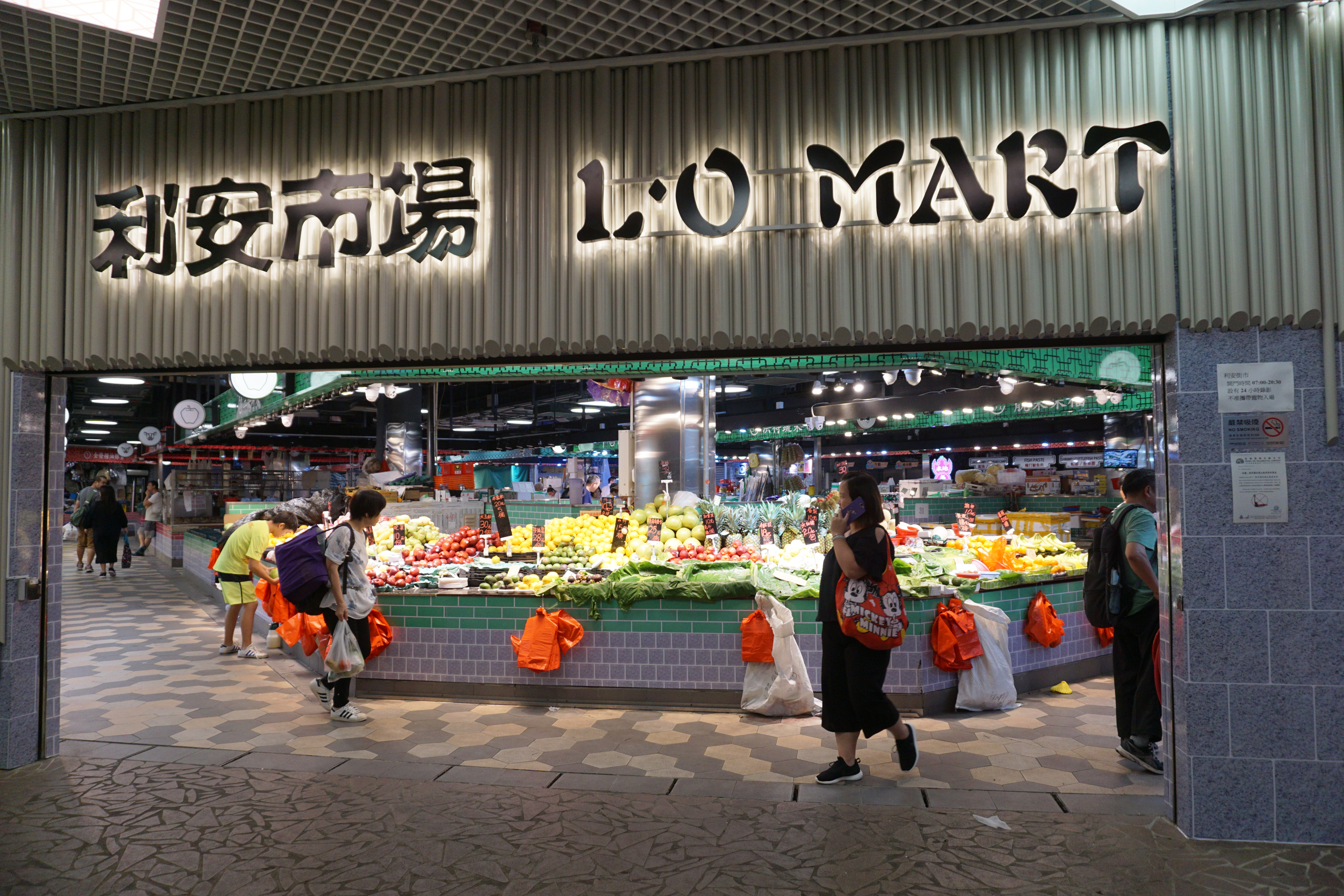 L·O Mart in Wu Kai Sha, Hong Kong.